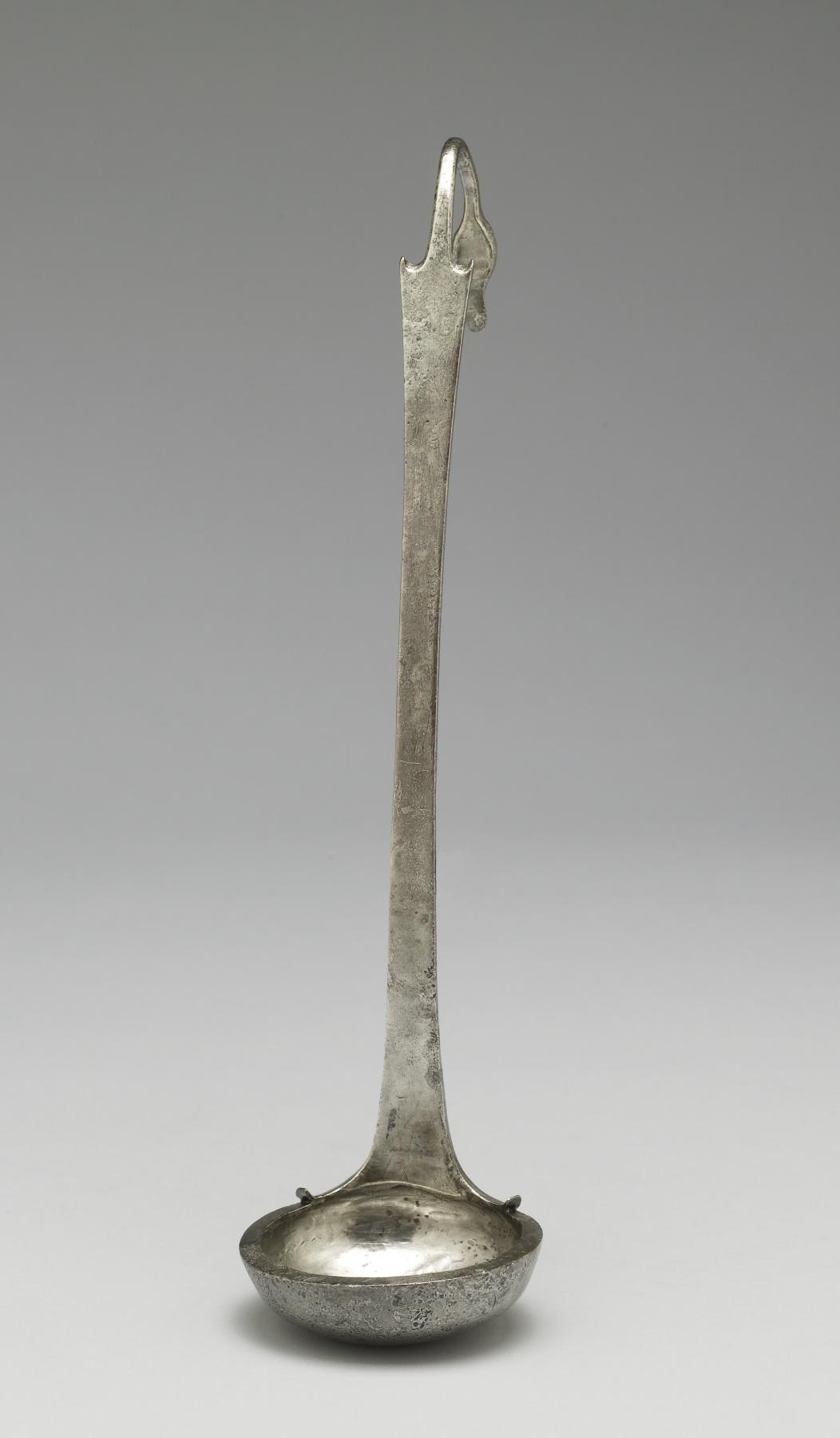 Ladles in the Classical and Hellenistic periods had handles that rose nearly vertically, as they were used for dipping into deep wine containers, such as "kraters." Ladles were often paired with strainers, and this example's long, strap-like handle ends in the bent neck of a swan, matching the handles of the strainer, with which it was found.